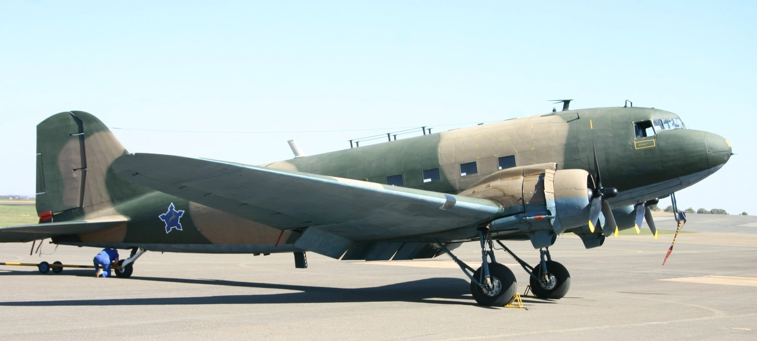 At AFB Swartkop